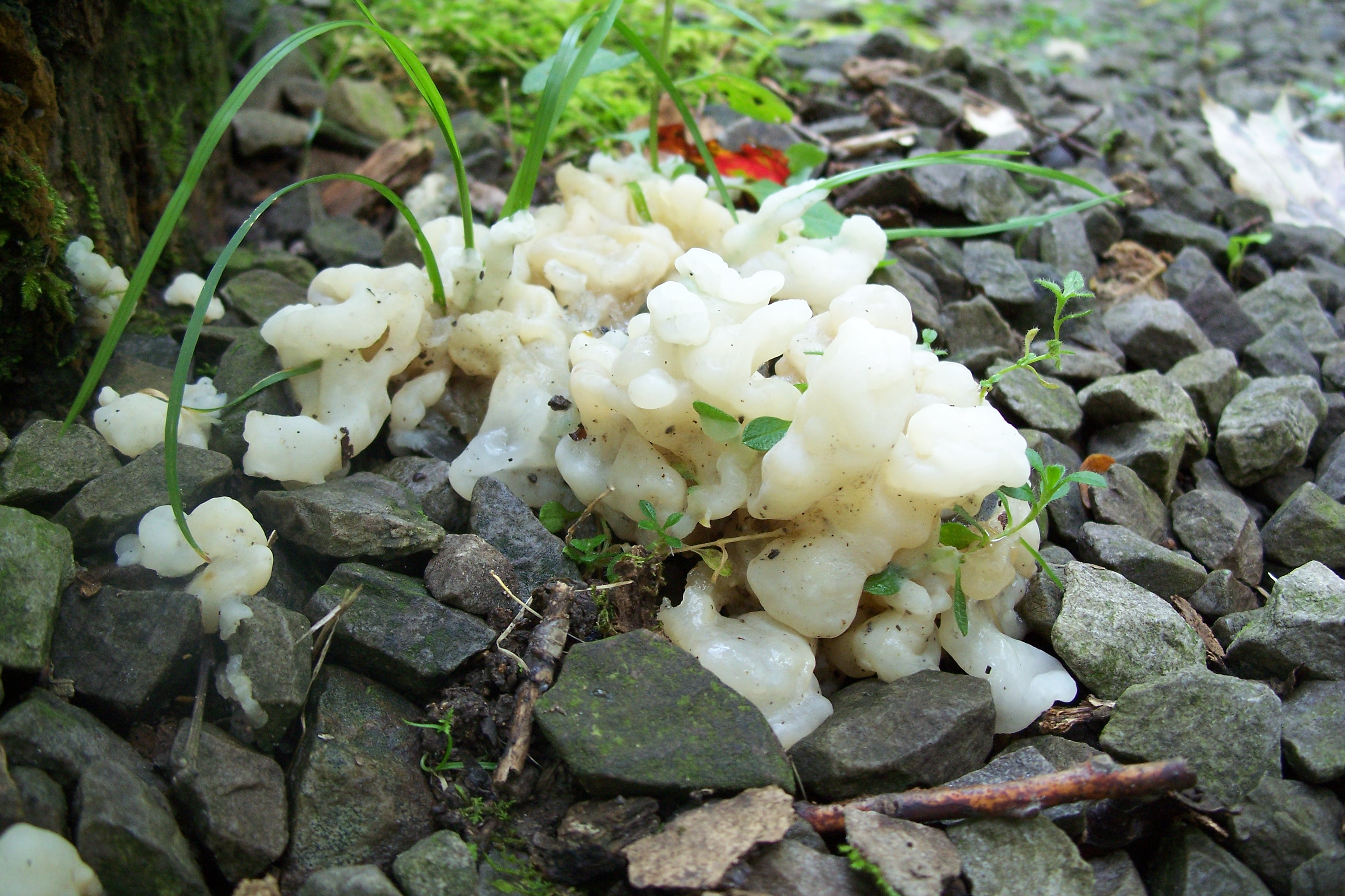 The fungus Sebacina sparassoidea (Lloyd) P. Roberts. Specimen photographed in Cranberry Wilderness, Monongahela National Forest, West Virginia, USA.